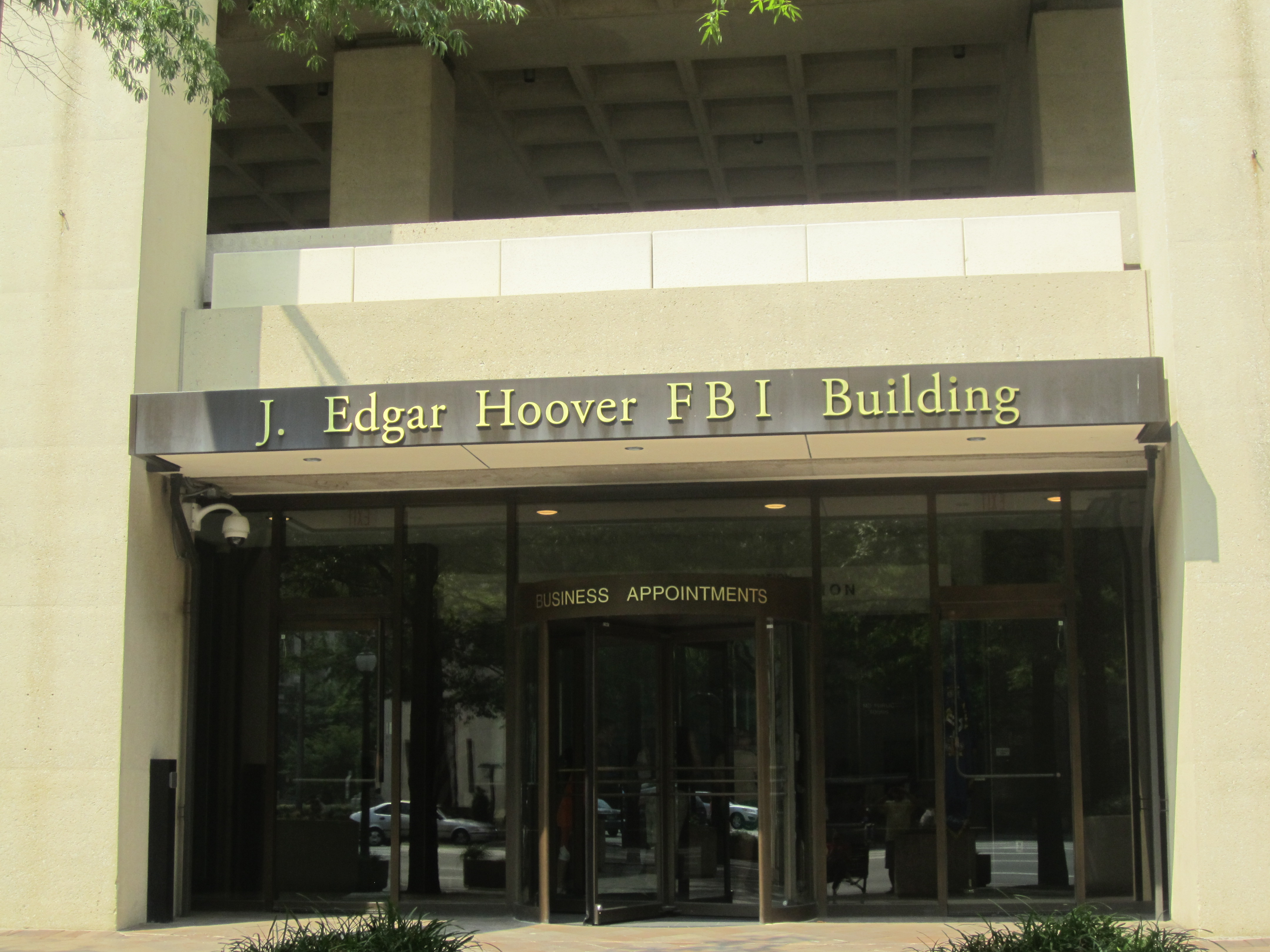 I took photo with Canon camera of FBI Building in Washington, D.C.